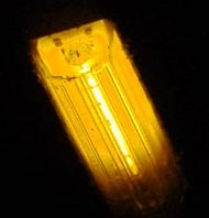 A sodium vapor lamp.